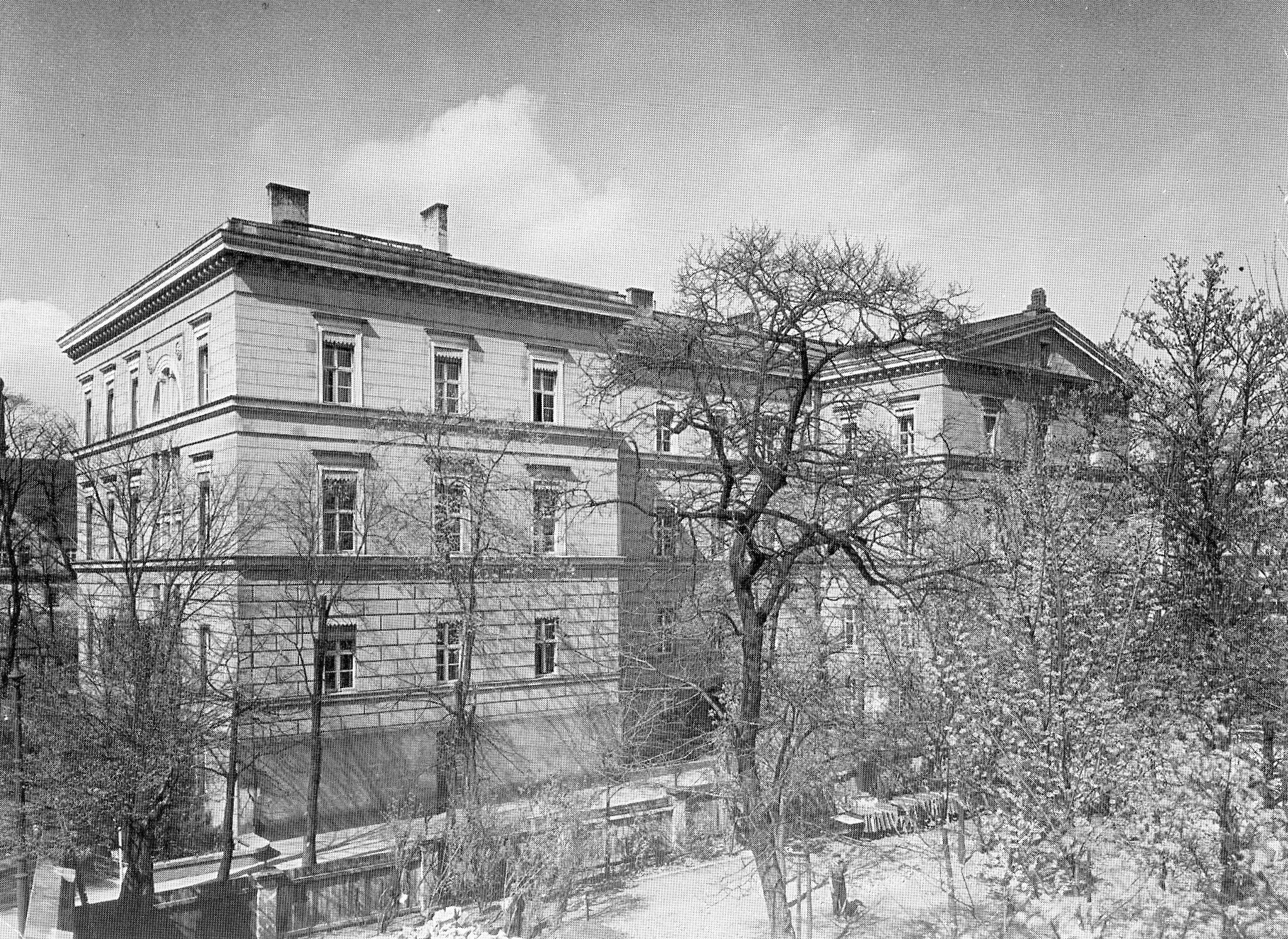 The old Government building in Opole